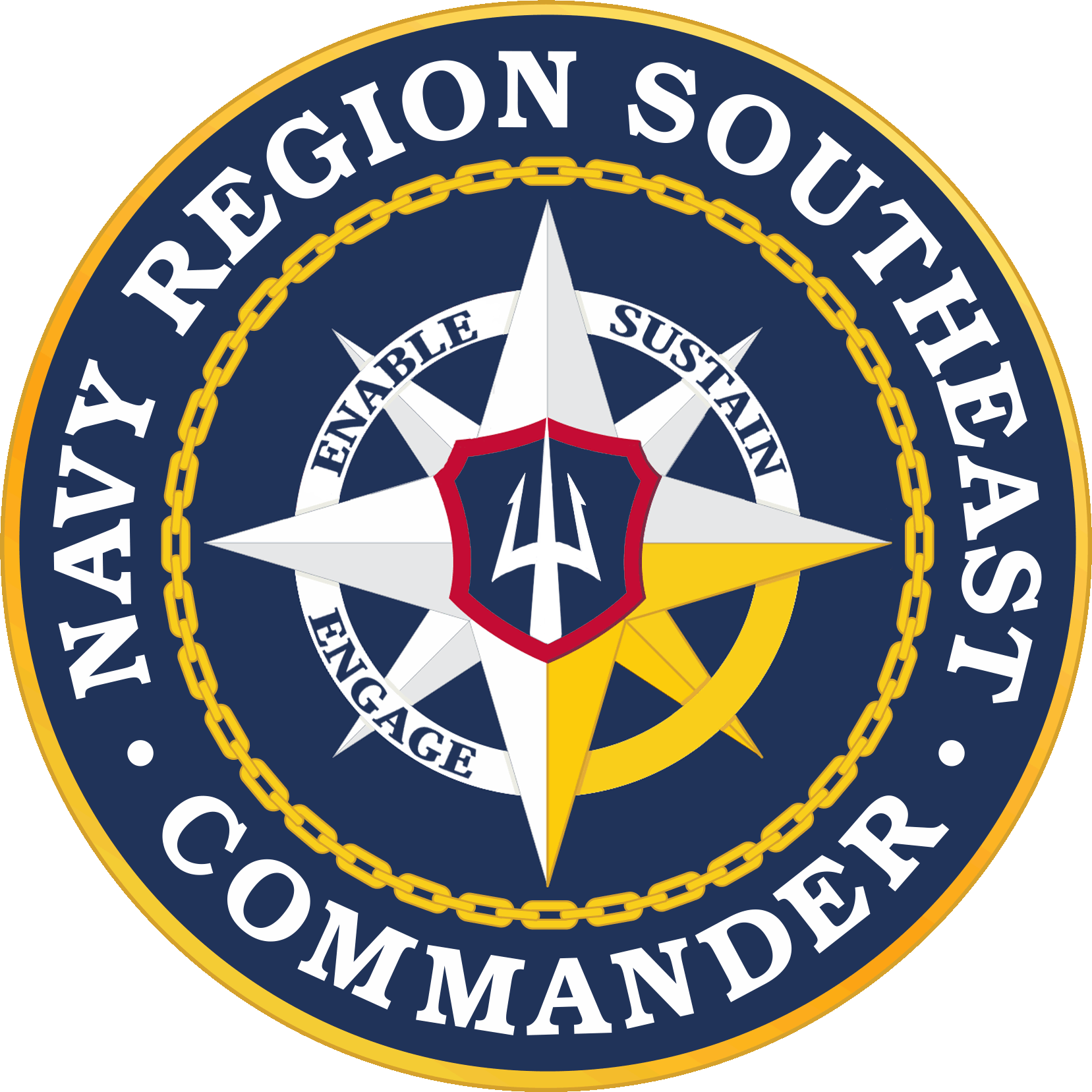 current logo of Commander, Navy Region Southeast